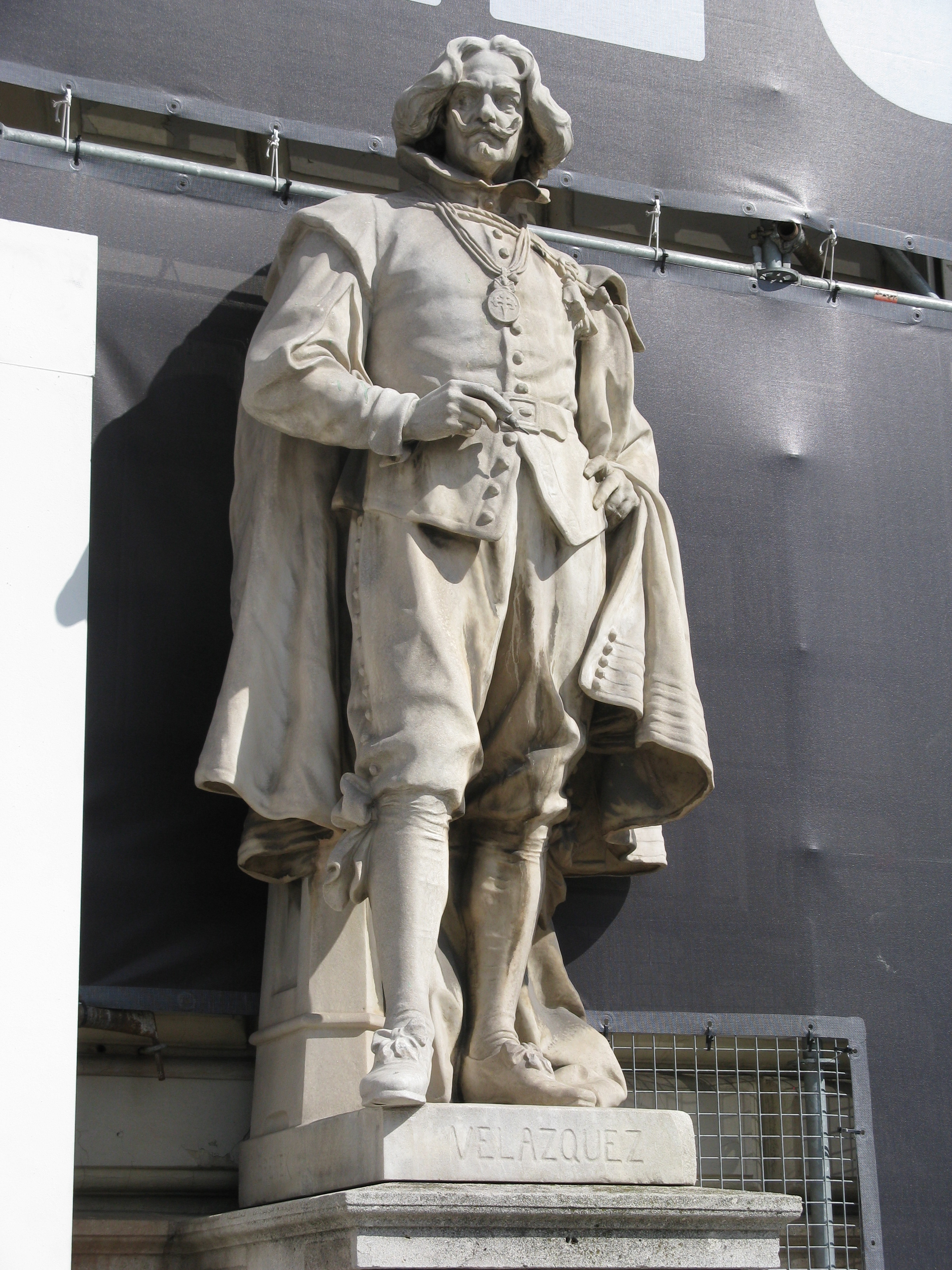 Statue of Velazquez in Vienna.